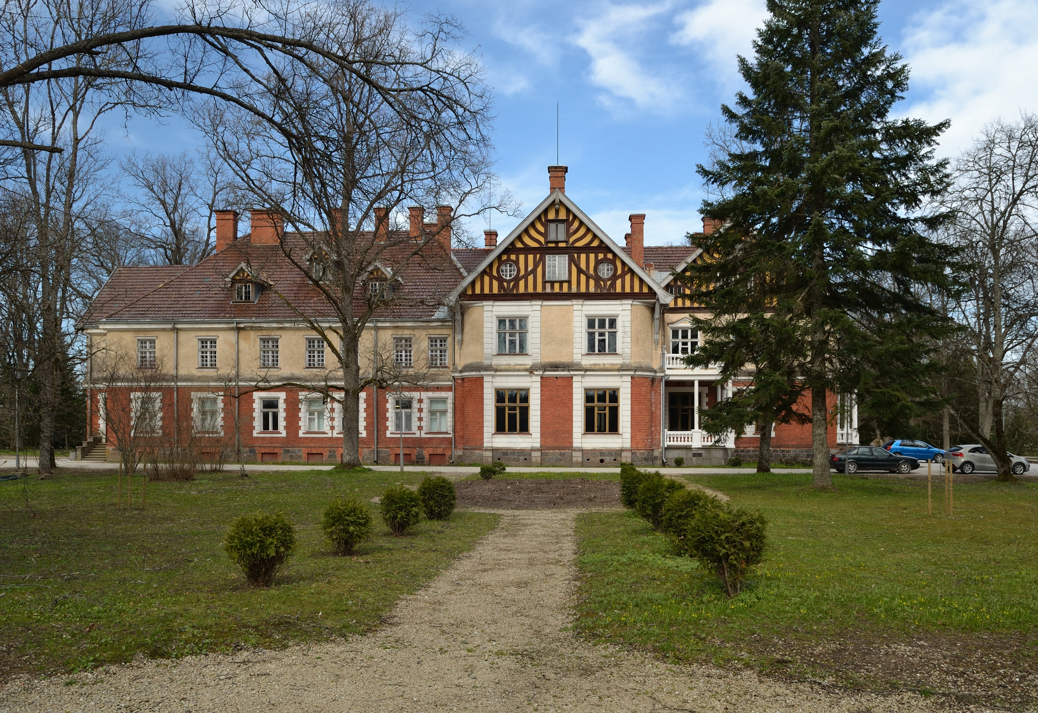 Olustvere manor main building